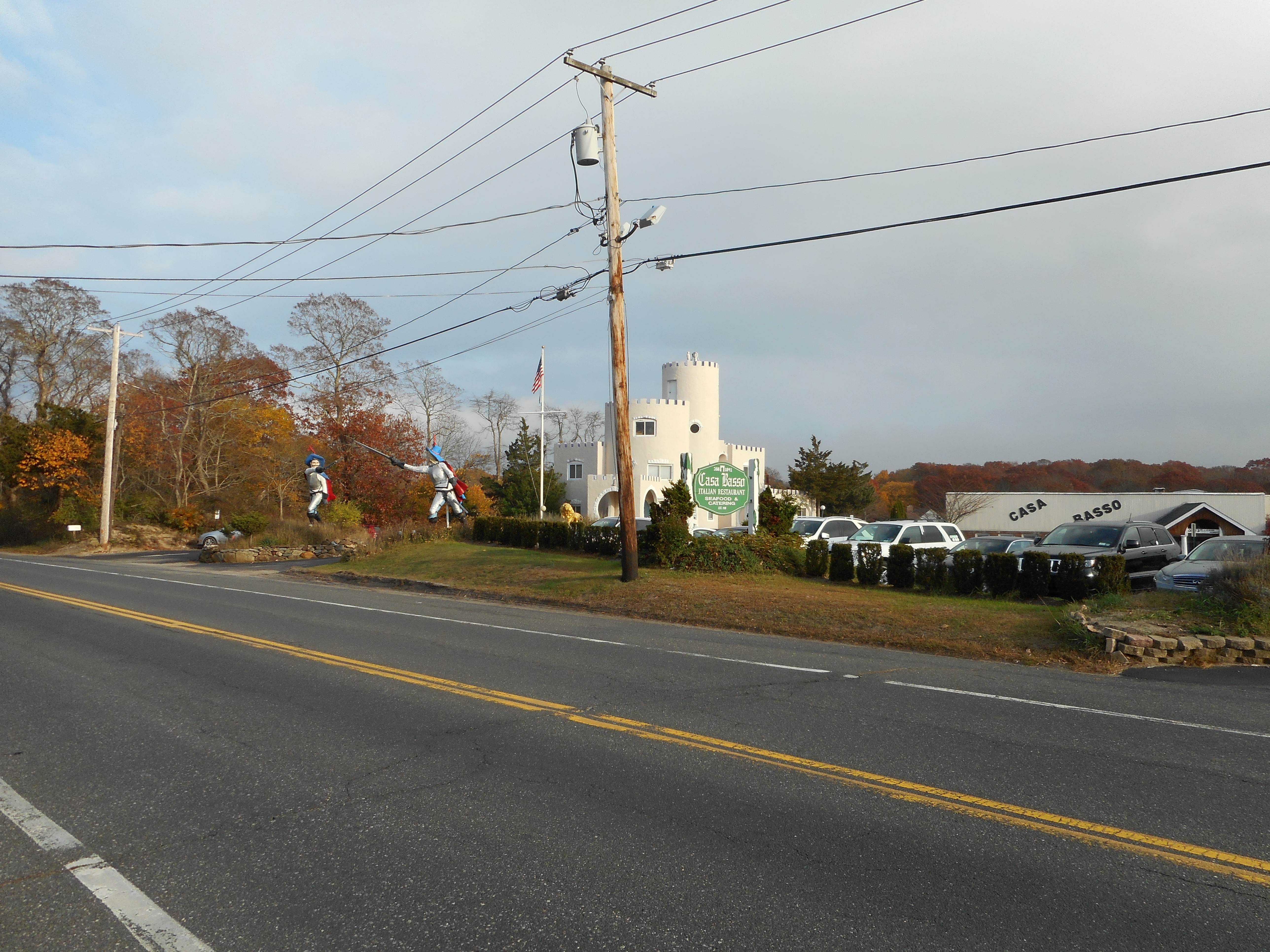 The Castle at Casa Basso, a roadside restaurant along Montauk Highway (Suffolk County Road 80) in Westhampton, New York. The view is taken from across Montauk Highway.